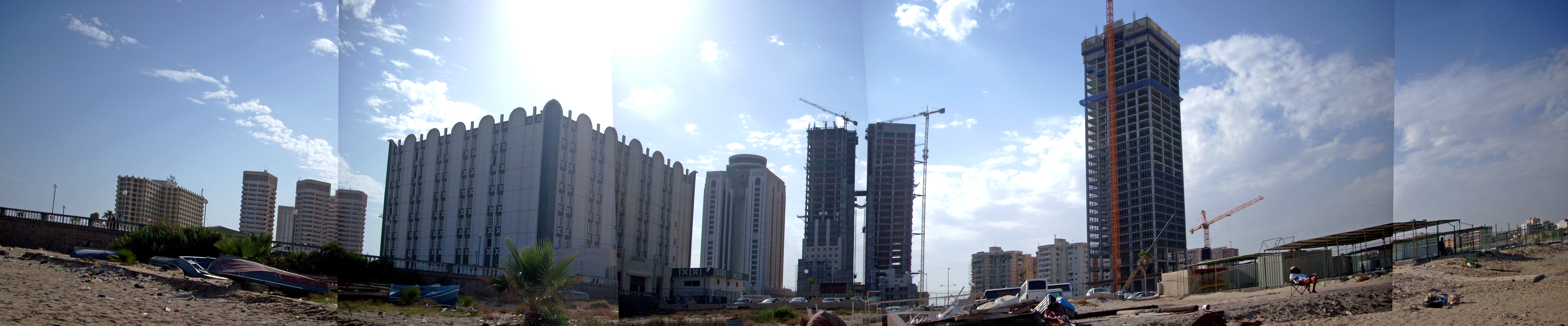 Construction in Tripoli Central Business District. From left to right: Bab el-Bahr Hotel, That El-Emad Towers, Bab el-Jadid Hotel, Al-Fateh Tower, Bu Layla Tower and JW Marriott Hotel (Both Under Construction as of June 2010)